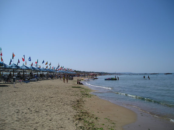 Seaside of Pescara